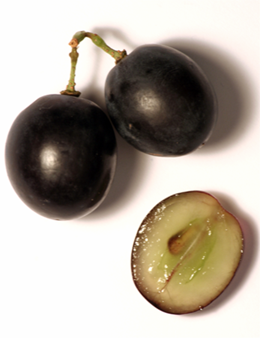 Dark-skinned grapes intended for wine production. The colour is in the grape skins while the juice is white.